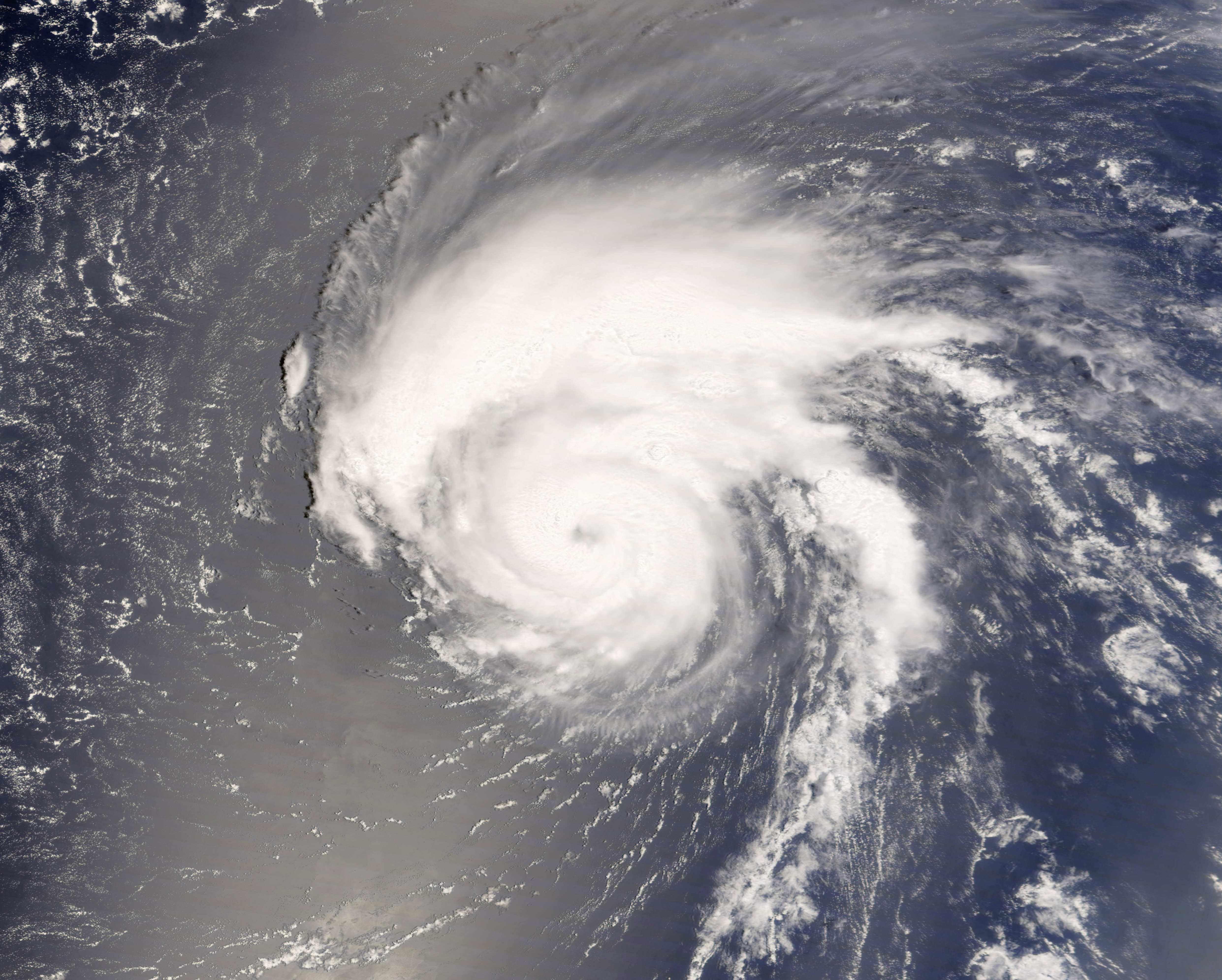 In the overnight hours of July 6, 2008, Tropical Storm Bertha matured into the first hurricane of the 2008 Atlantic season. Far from land, the storm posed little threat, but it was record-breaking nevertheless. Since reliable records began in the 1940s, no hurricane has ever formed so far east before August 1. This natural-color image of Hurricane Bertha was captured by the Moderate Resolution Imaging Spectroradiometer (MODIS) on NASA’s Terra satellite on July 9, 2008, at 14:45 UTC (10:45 a.m. Eastern Daylight Time). Shortly after, the National Hurricane Center estimated that Bertha was a Category 1 storm, with maximum sustained wind speeds of 75 miles per hour. Bertha was compact when MODIS observed it, a small ball of clouds with a long line of thunderstorms trailing away to the southeast. The eye of the storm had clouded over. Bertha spun up from a tropical depression that coalesced near the Cape Verde Islands in the first week of July. By the early morning hours of July 7, it had become a Category 1 hurricane, and less than 12 hours later had intensified to Category 3 status, with winds near 115 mph. Two days later, when this image was captured, the storm had weakened to Category 1, but was forecast to re-intensify. Bertha was a “Cape Verde” storm, a tropical storm that starts near the Cape Verde Islands when a wavelike kink in the tropical easterlies over Africa ripples out over the ocean. These kinks, known as tropical waves, help start the large-scale rotation of clusters of thunderstorms that will lead to a cyclone. Early in the season, these waves are weaker, and sea surface temperatures are cooler, and so it usually takes many days for any Cape Verde storms that form to intensify into hurricanes—and all the while they are drifting west. Bertha transformed into a major hurricane very rapidly, and thus, farther east than is usual for July.